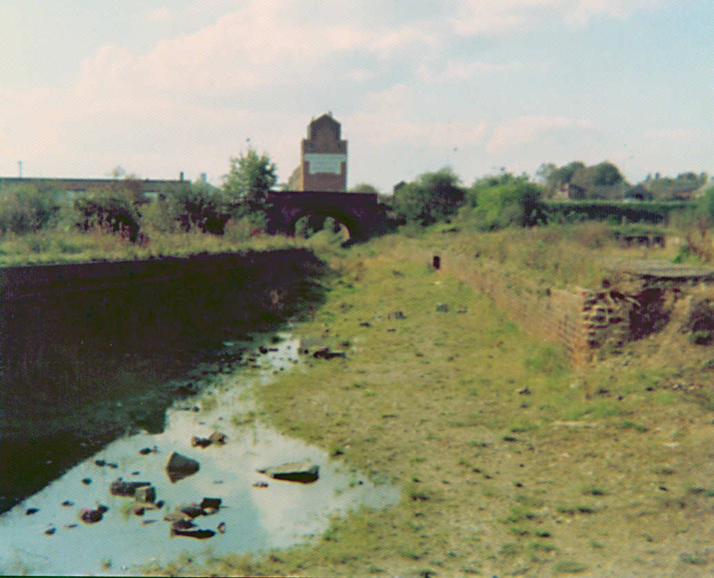 Dunmow station in c1976